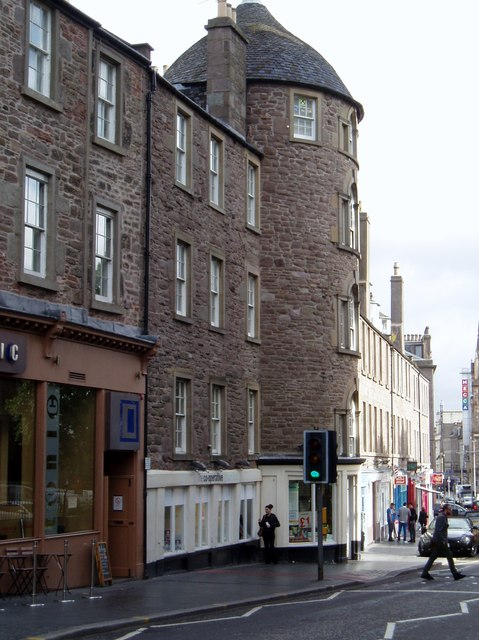 Morgan Tower